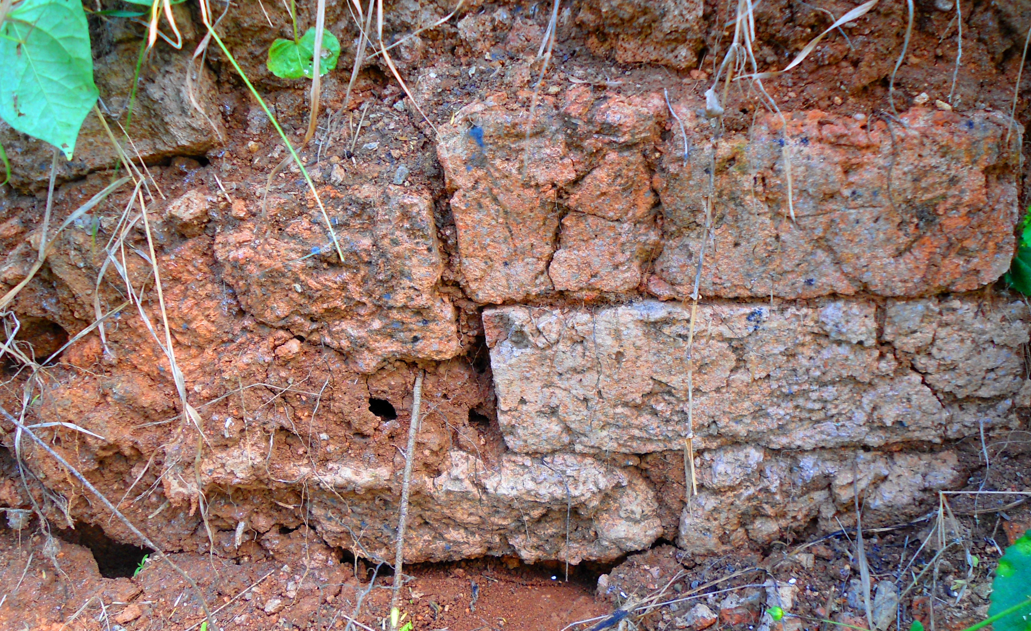 Garikapadu Buddhist Stupa, Krosuru mandal, Guntur district